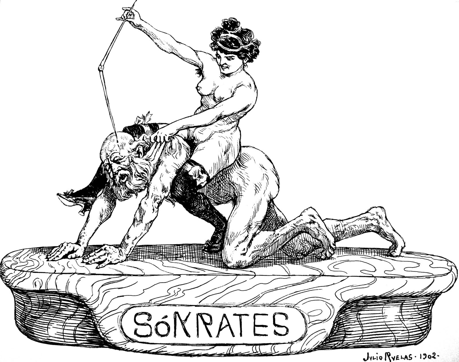 "Sókrates" (depiction of variant of Aristotle and Phyllis legend; the woman is shown wearing anachronistic 1902 stockings and shoes, and wielding a large pair of compasses or dividers).